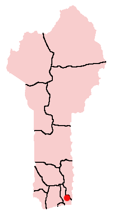 Porto Novo, Benin Location Map; created with the GIMP. Made by User:Acntx.